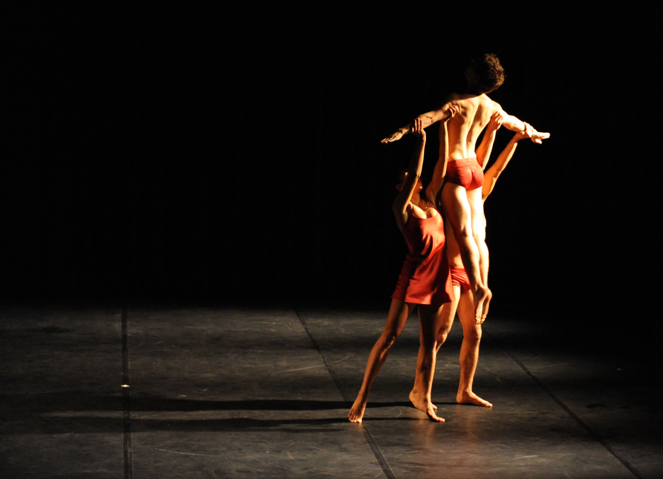 (dance masterpiece)